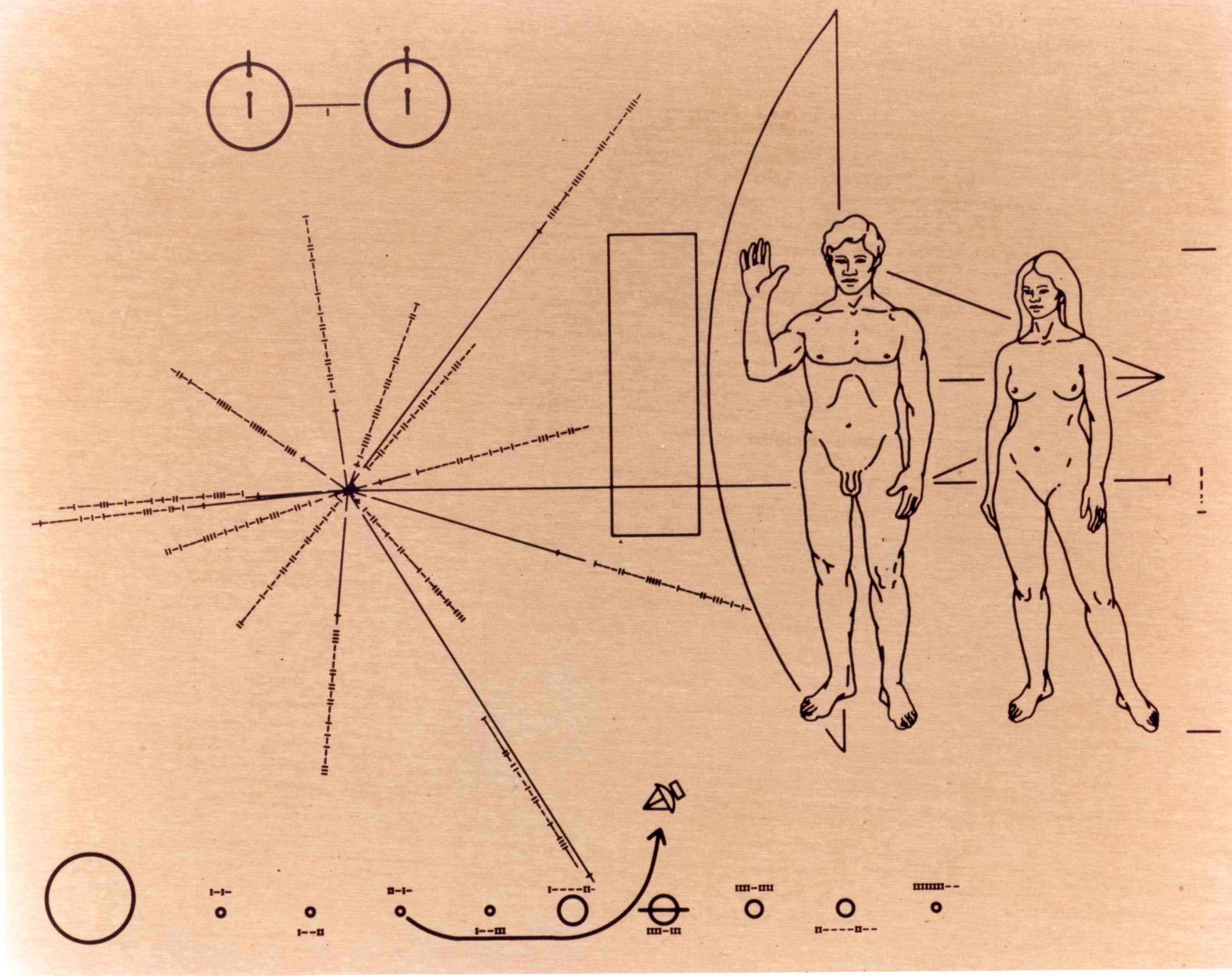 NASA image of Pioneer 10's famed Pioneer plaque features a design engraved into a gold-anodized aluminum plate, 152 by 229 millimeters (6 by 9 inches), attached to the spacecraft's antenna support struts to help shield it from erosion by interstellar dust.